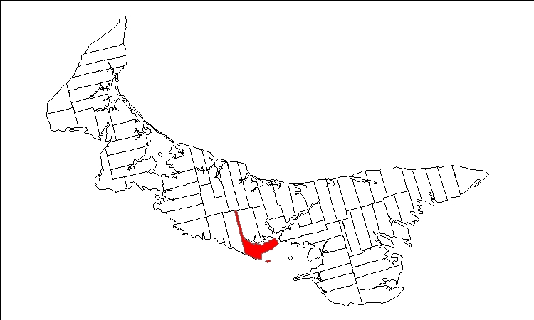 Public domain map of Prince Edward Island created by User:Plasma east with data courtesy of Geogratis, modified to show townships. Released under GFDL (self).